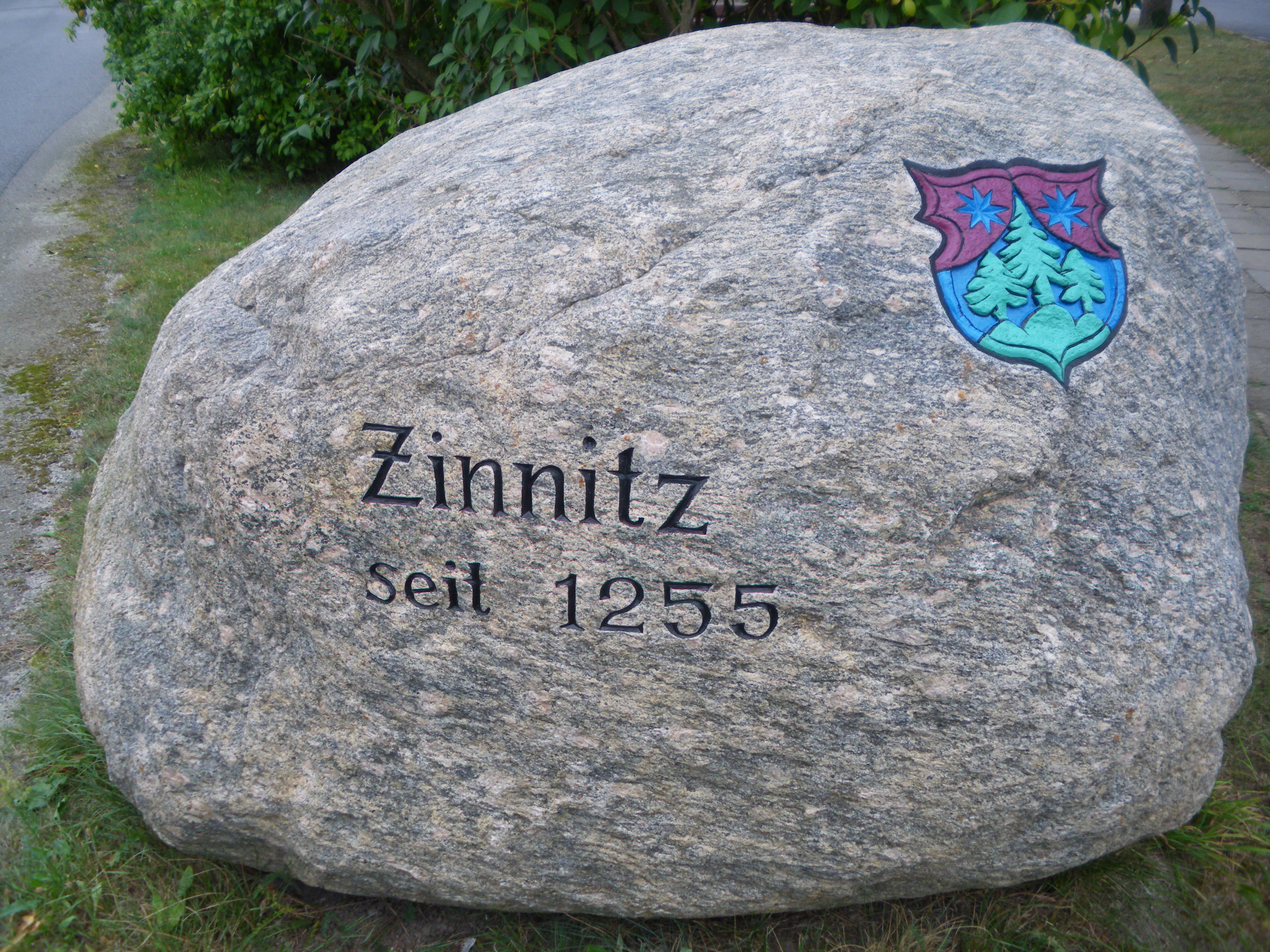 Stone with coat of arms in Zinnitz, in Zinnitz, Calau, Brandenburg, Germany